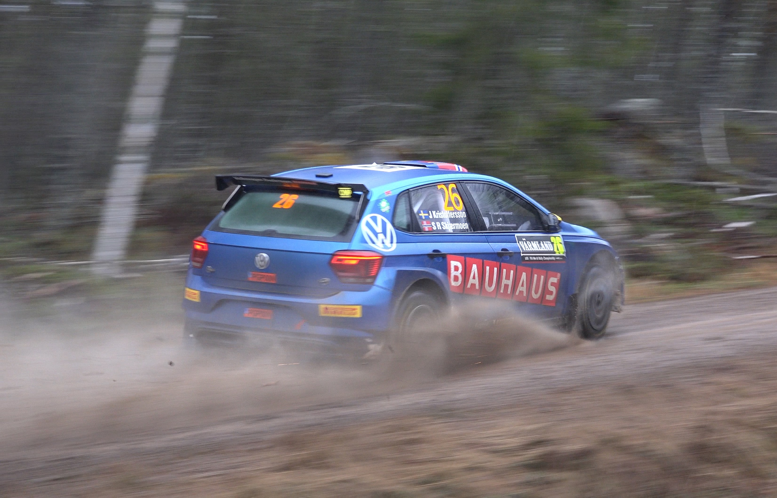 Johan Kristoffersson during Rally Sweden 2020.